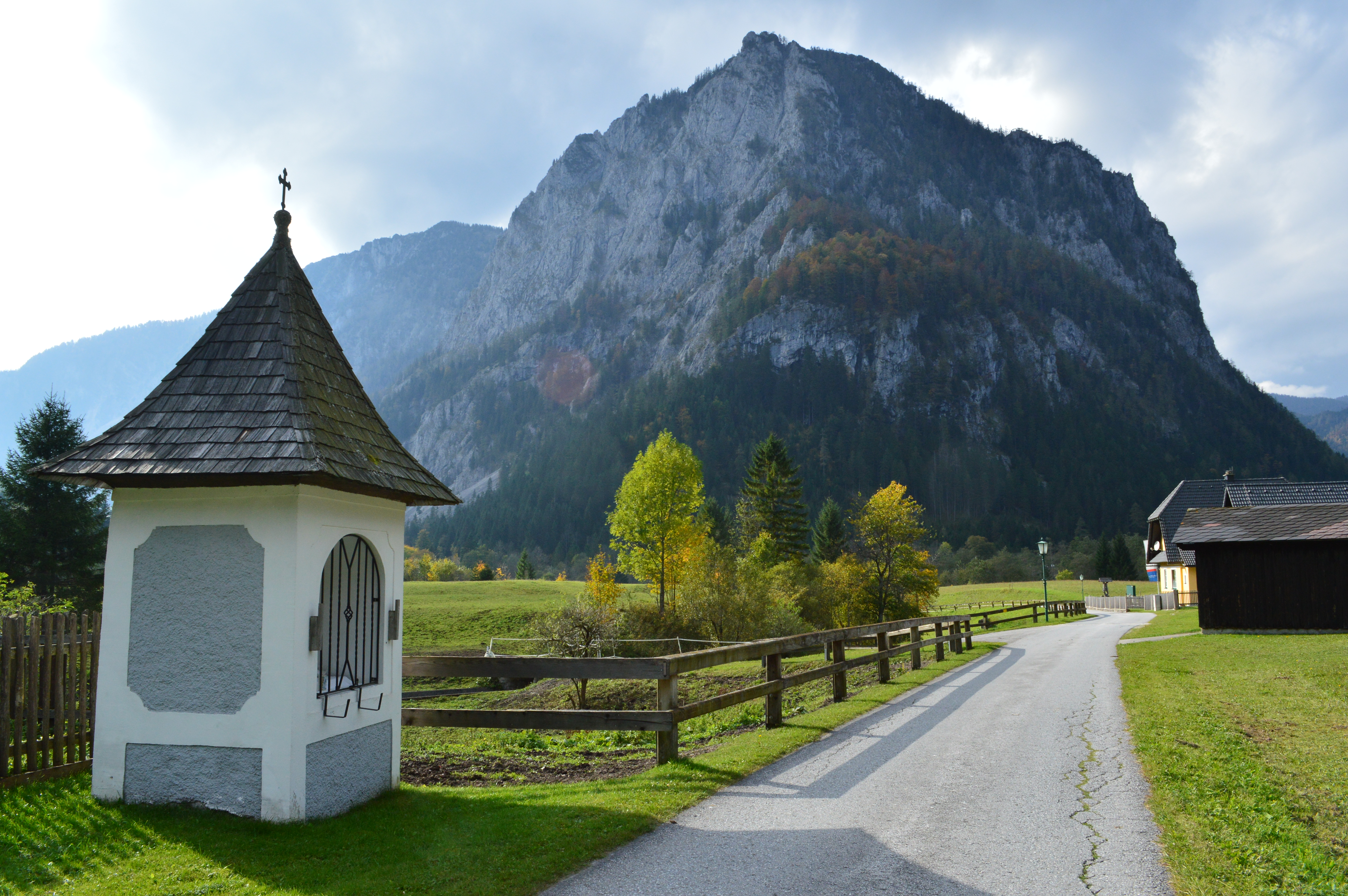 Chapel near Weichselboden 22, municipality Gußwerk, Styria, Austria Template:Denkmalgeschütztes Objekt Österreich. In the background the Ameiskogel (1471m).